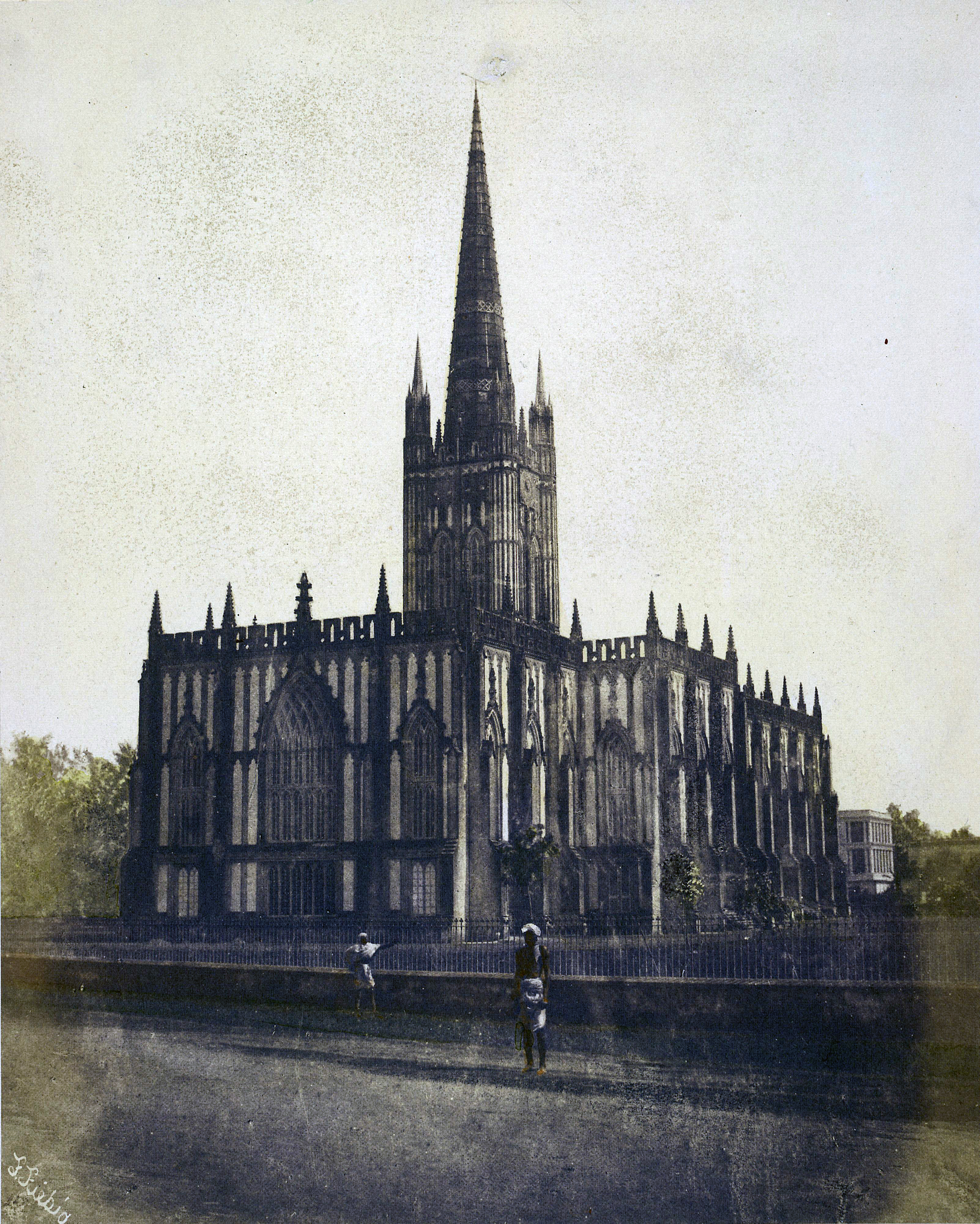 "St Paul's Cathedral, Calcutta," hand-coloured photographic print, by Frederick Fiebig. Dated 1851. Courtesy of the British Library, London.